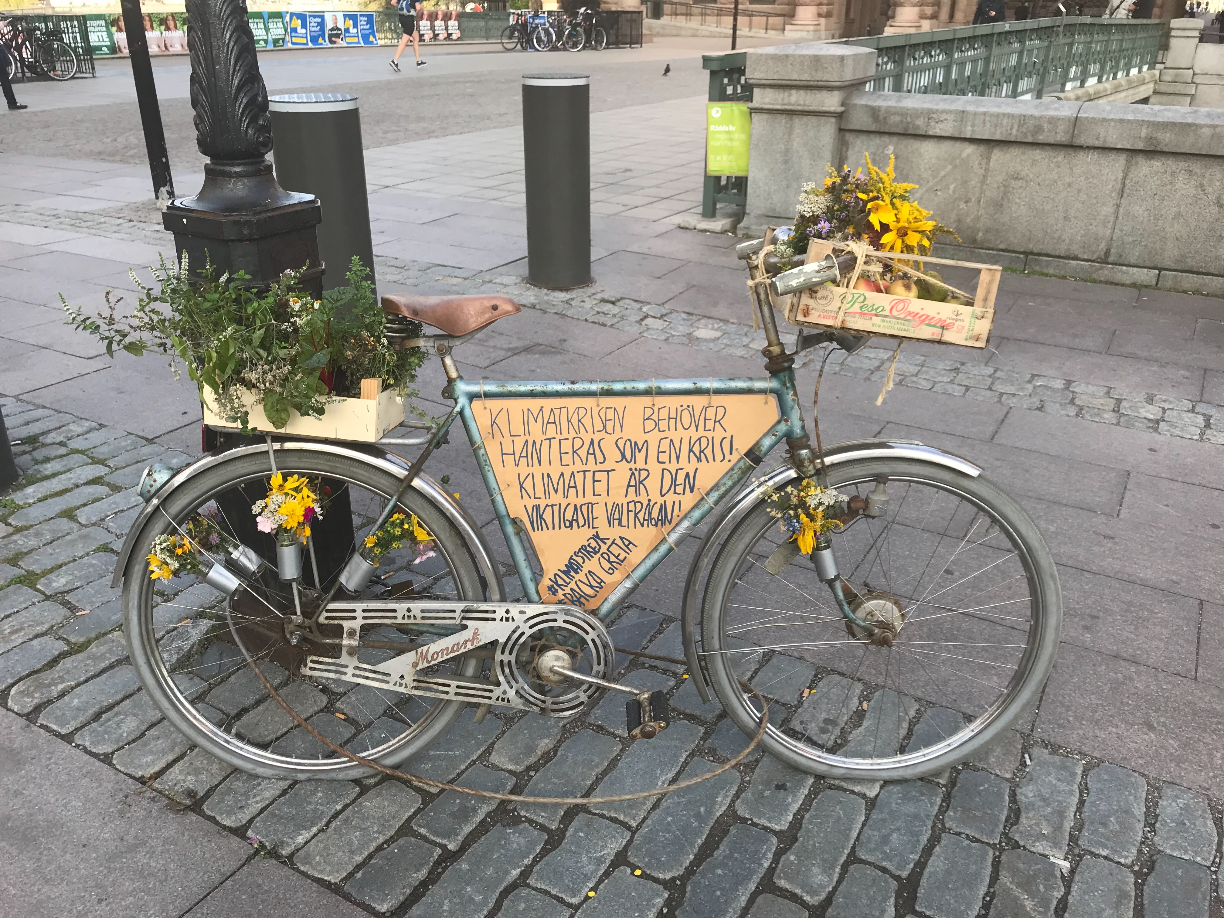 bicycle at Gamla stan with promotion for Greta Thunberg, Stockholm, Sweden, September 2018